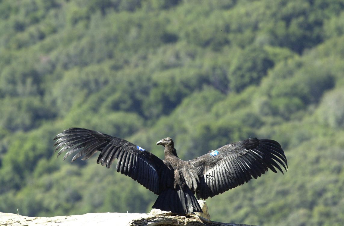 Young California condor (Gymnogyps californianus) ready for flight.